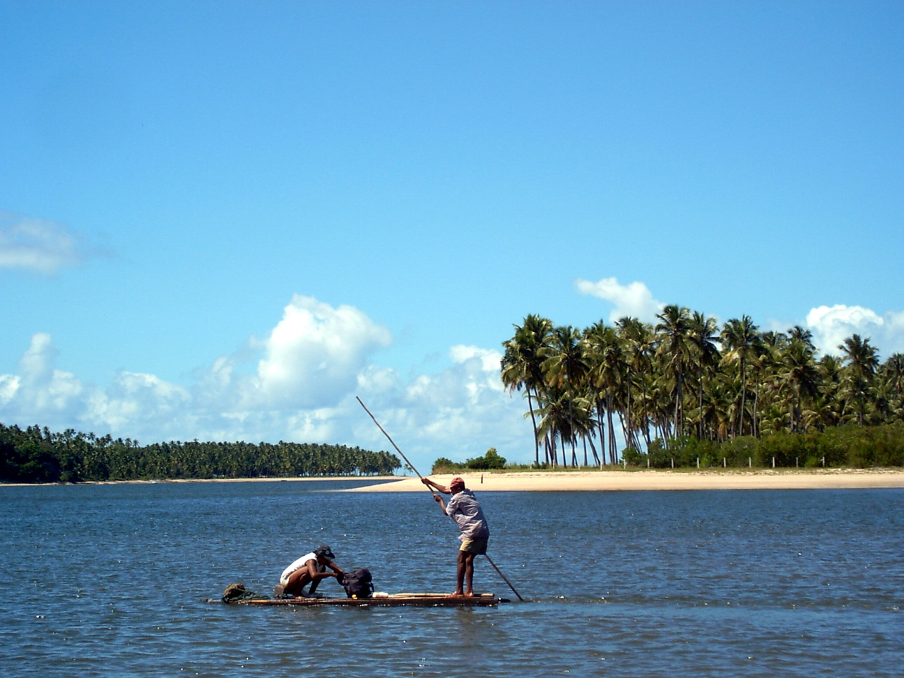 Fishermen at freshwater stream near Tamandaré, PE, Brazil